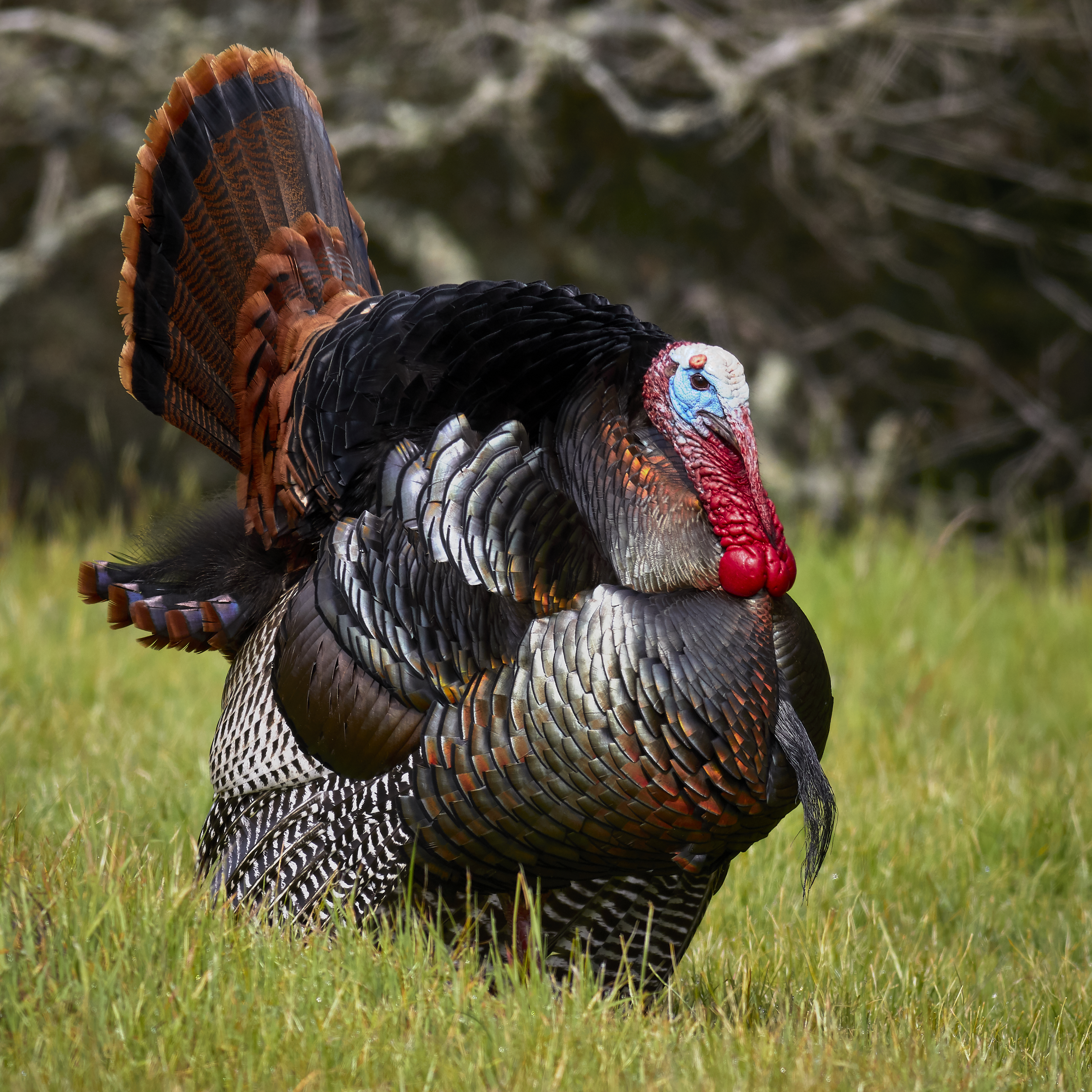 Adult male wild turkey (Meleagris gallopavo intermedia) strutting at Deer Island Open Space Preserve near Novato, Marin County, California Sunda: Kalkum liar jalu sawawa (Meleagris gallopavo intermedia) keur mébérkeun buluna di Deer Island Open Space Preserve deukeut Novato, Marin County, California